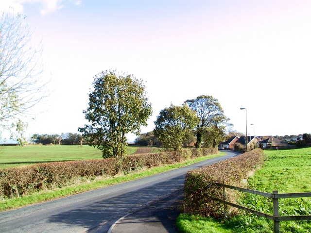 Medlar-with-Wesham. Looking east down Mowbreck Lane towards Mowbreck Hall, from the entrance to the Hospital Rehabilitation Centre. The original Mowbreck Hall, owned by the Westby family for over 500 years, and a Catholic stronghold, although now lost and re-built, was reputed to be haunted and has links with Shakespeare. Mowbreck Hall Farm, nearby, remains. Mowbreck lane may be followed to Treales.